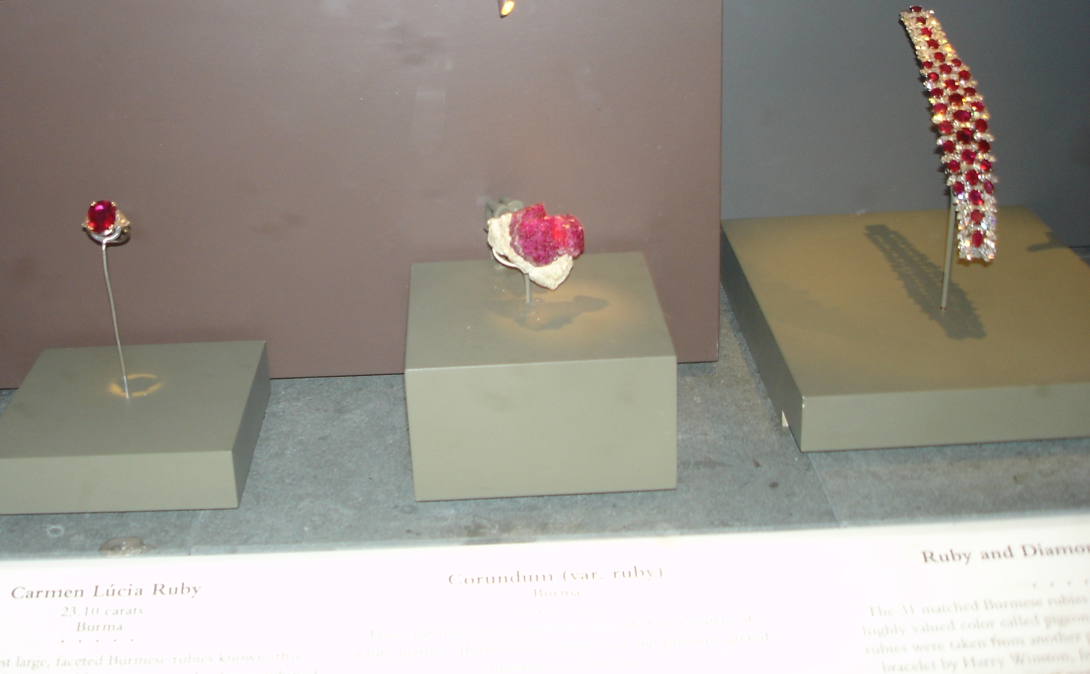 A picture I took on my senior trip